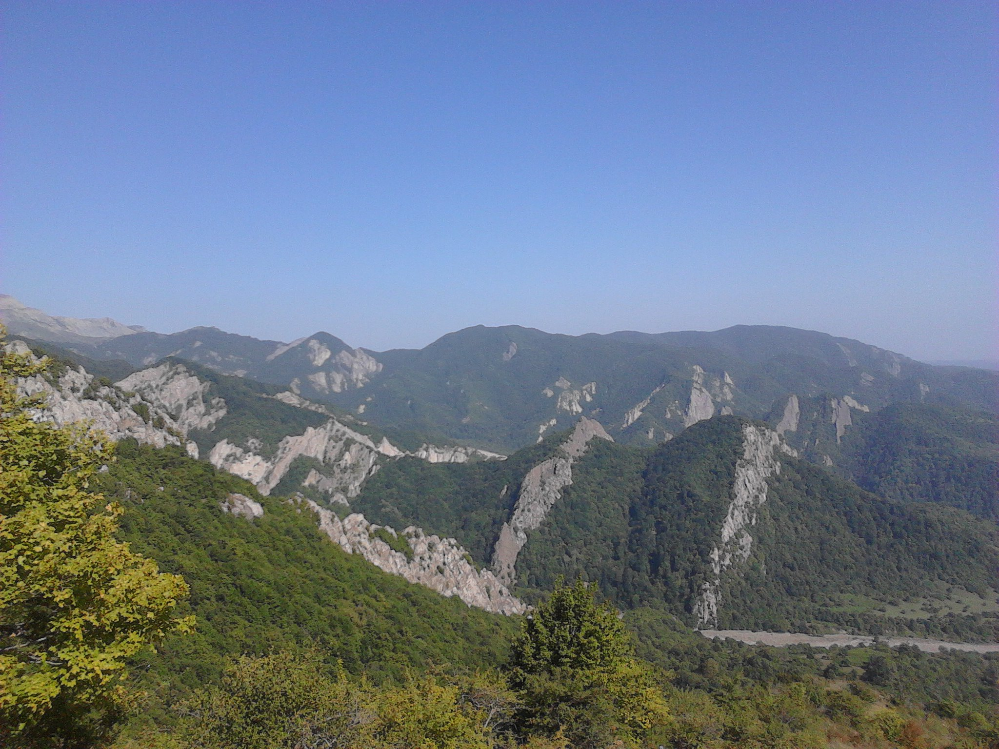 View from Phit mountain. Ismayilli Rayon of Azerbaijan.